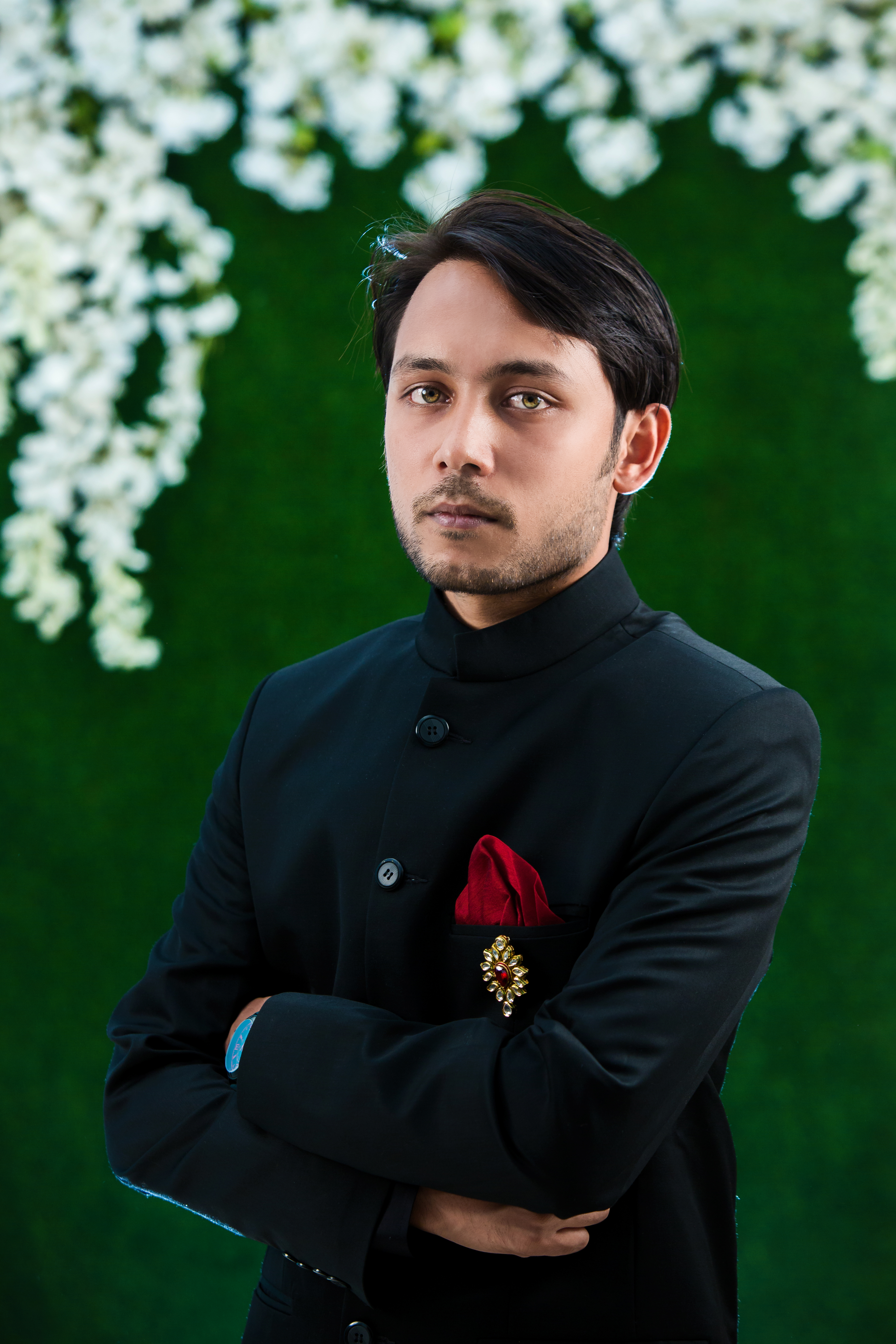 Groom